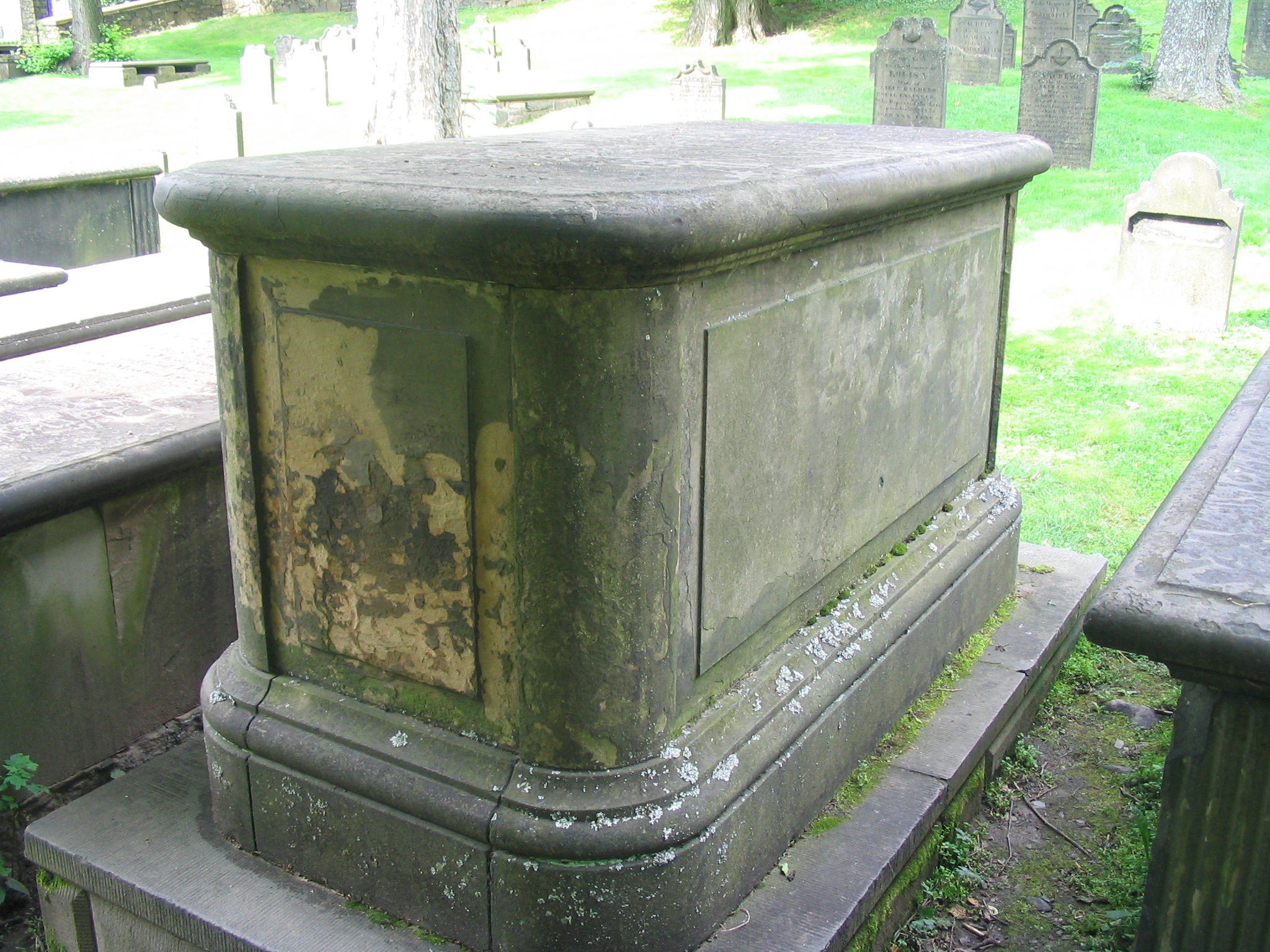 Tomb of Major General Robert Ross